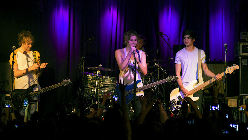 5 Seconds of Summer at Oxford Art Factory in Sydney.